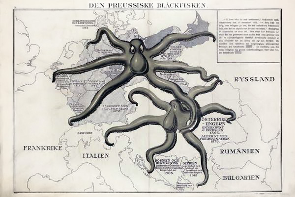 THE PRUSSIAN OCTOPUS. ‘We do not threaten small nations,’ declared the German Chancellor on December 10th, 1915; ‘we do not wage war which has been forced upon us in order to subjugate foreign peoples, but for the protection of our life and freedom.’ This pictorial map is a commentary on his words. It shows how Prussia has stolen one province after another from her neighbours and, like a baleful octopus, is still stretching out her tentacles to grasp further acquisitions.